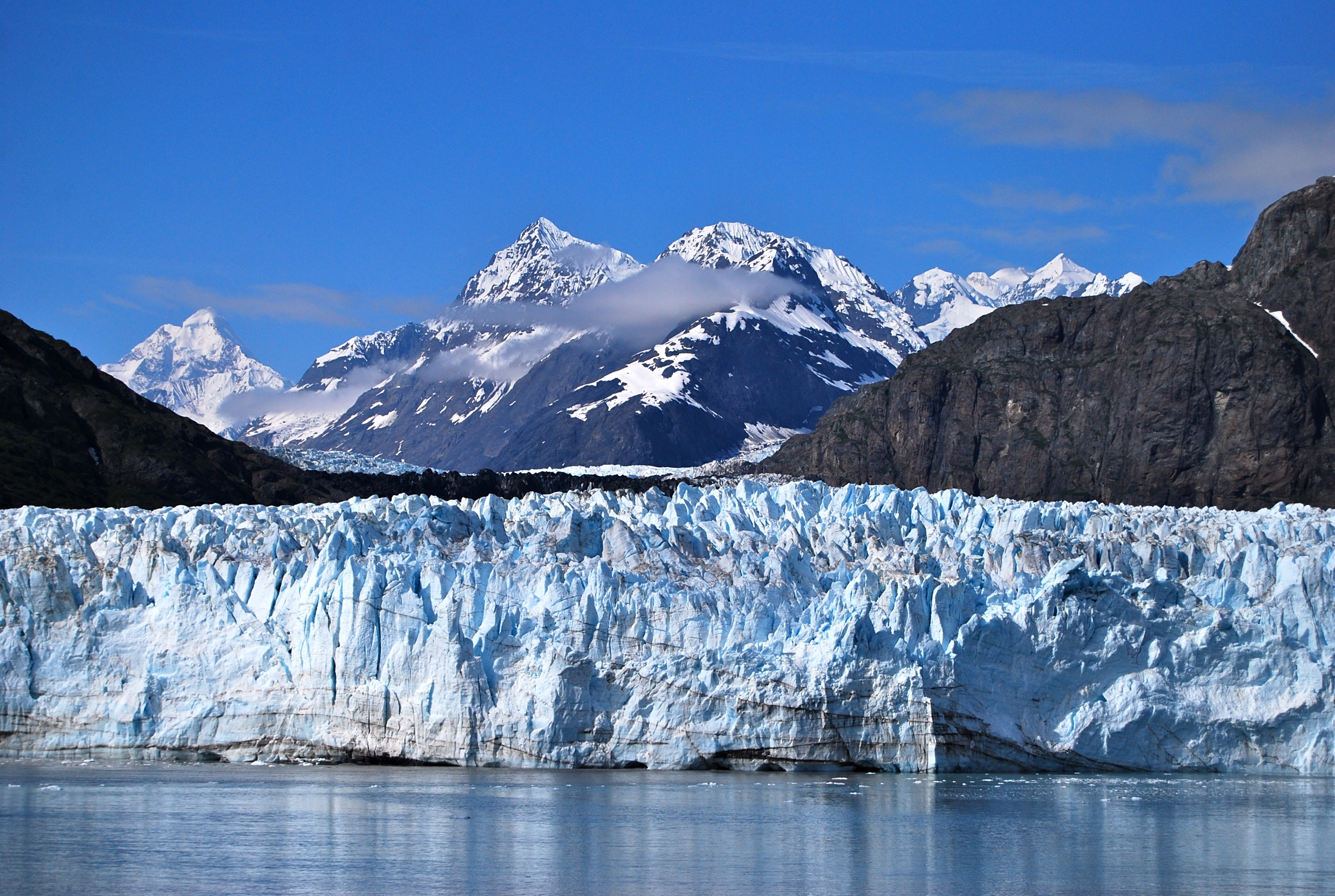 Margerie Glacier & Mt Fairweather